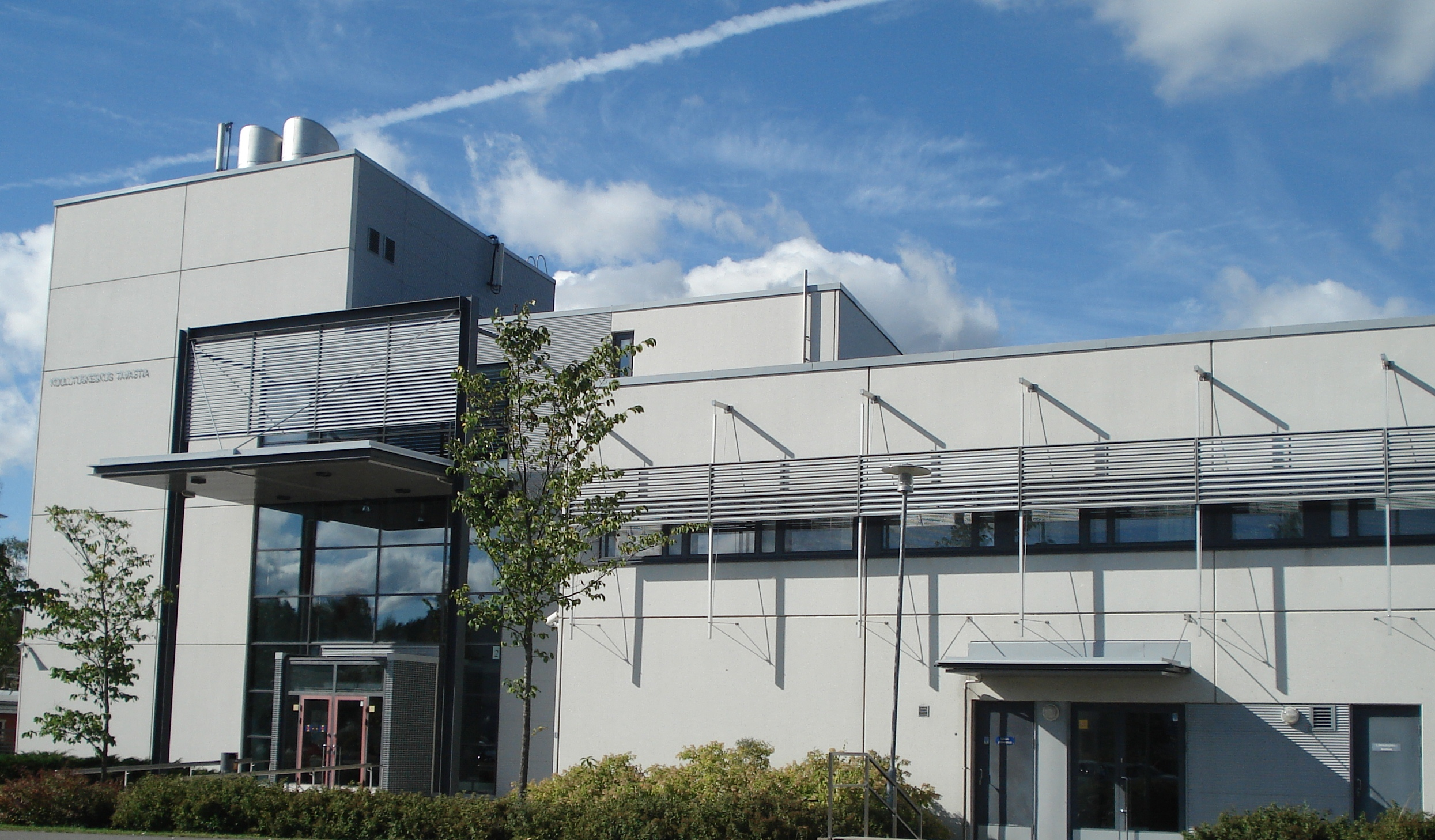 Tavastia School- Building G. September 2012